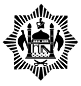 Aircraft roundel used by Afghanistan from 1924 to 1929.